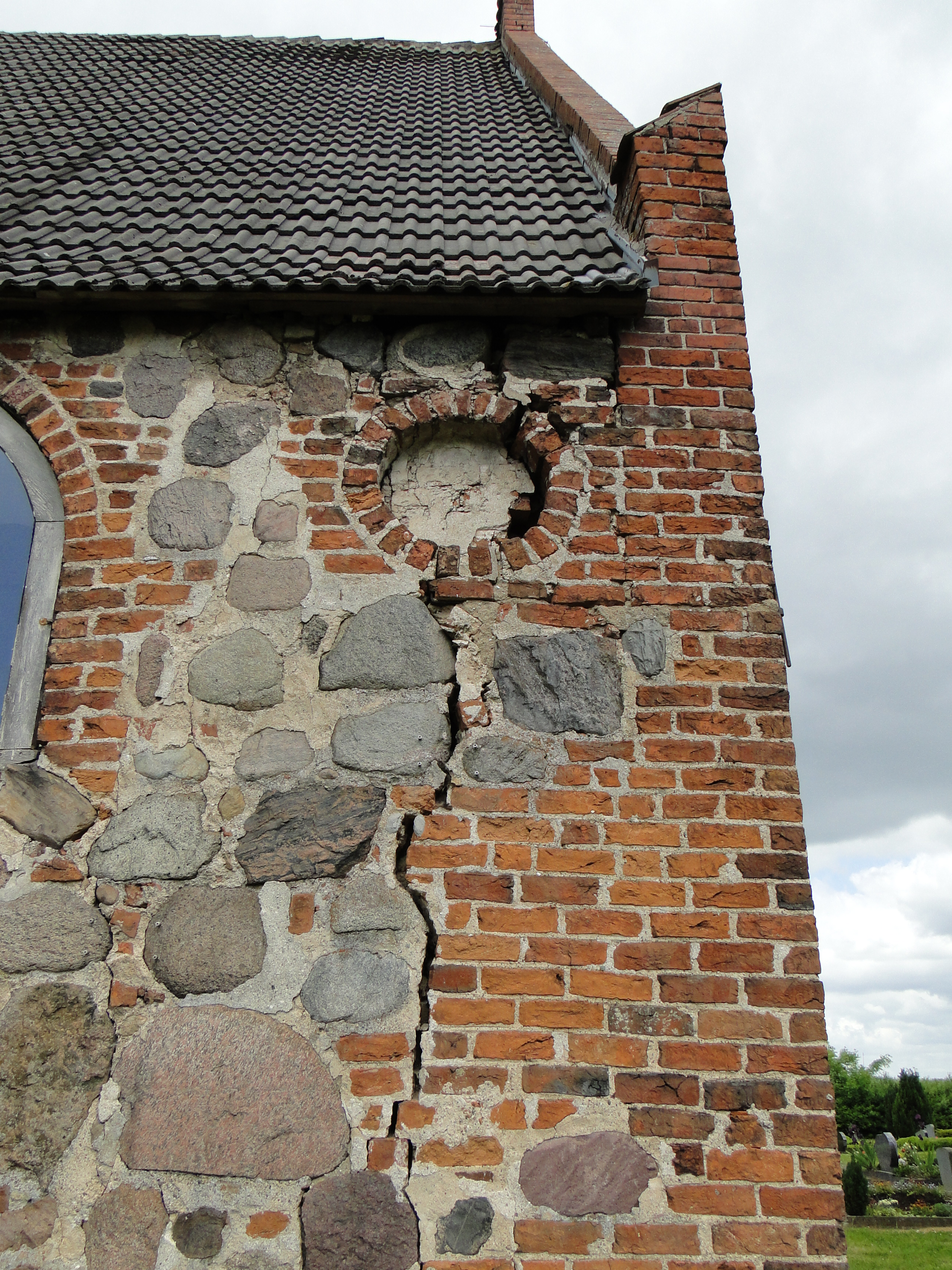 Church in Hohen Pritz, district Ludwigslust-Parchim, Mecklenburg-Vorpommern, Germany